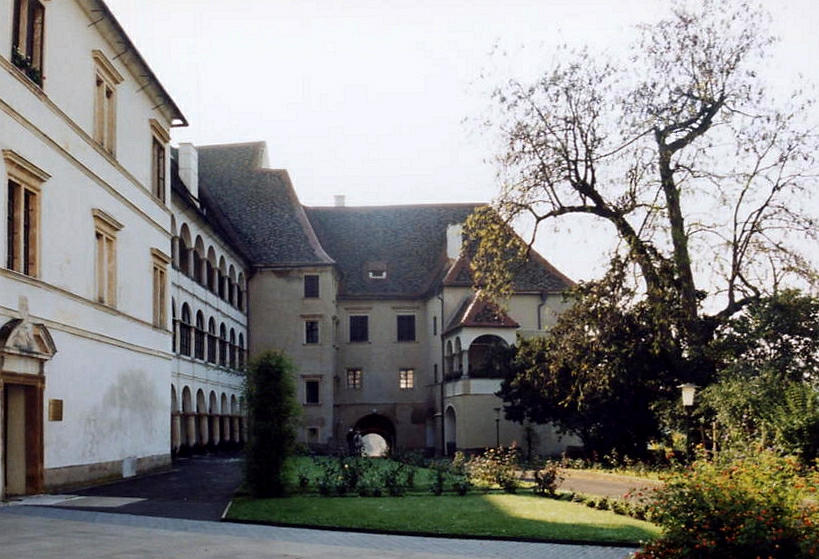 Schloss Seggau (Seggau Castle) in Seggauberg.